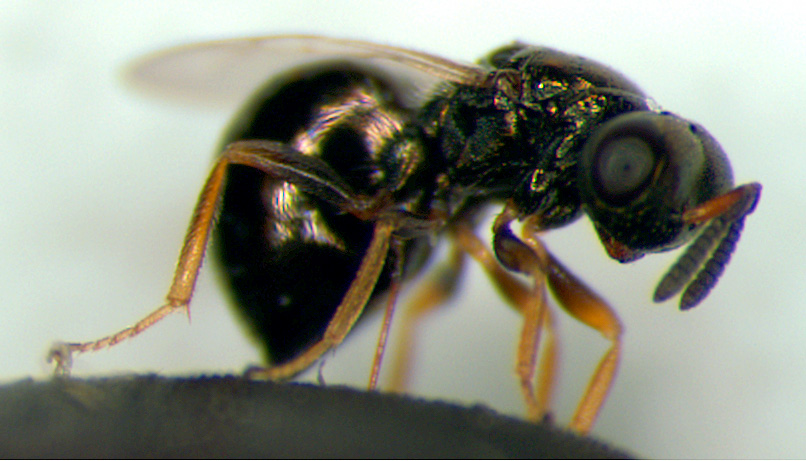 Nasonia vitripennis female.